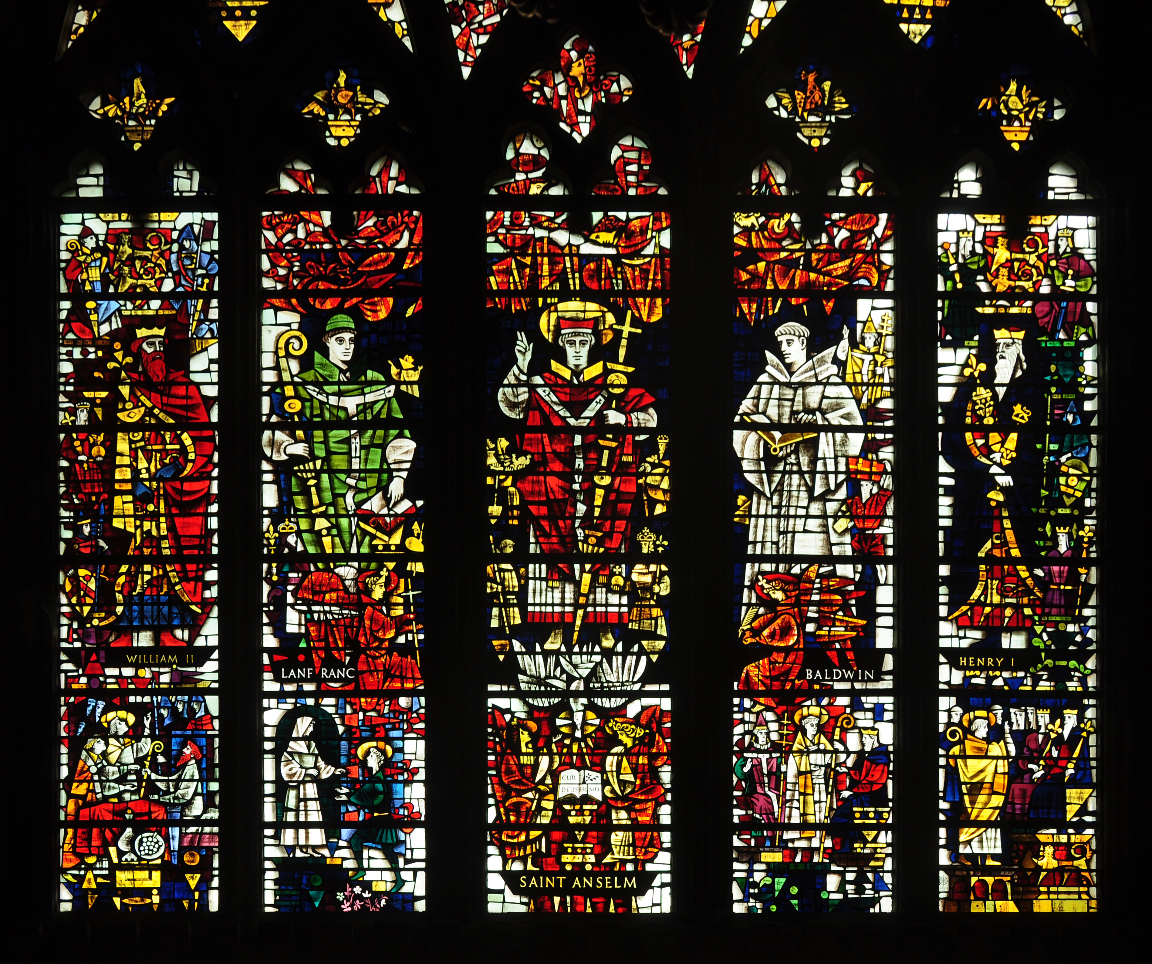 A stained glass window in Canterbury Cathedral.